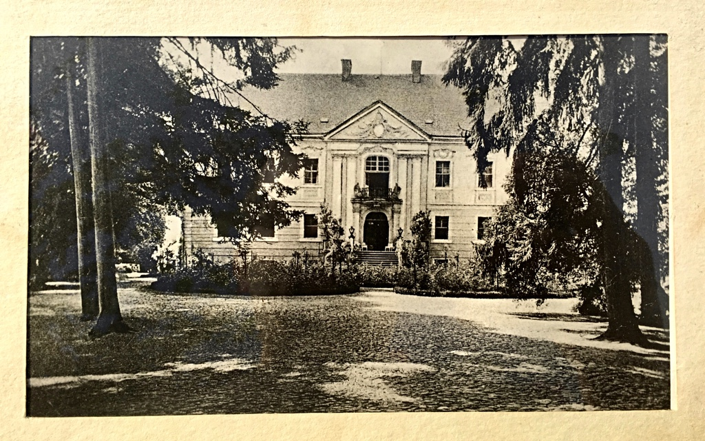 Castle of Kontopp historic picture about 1925